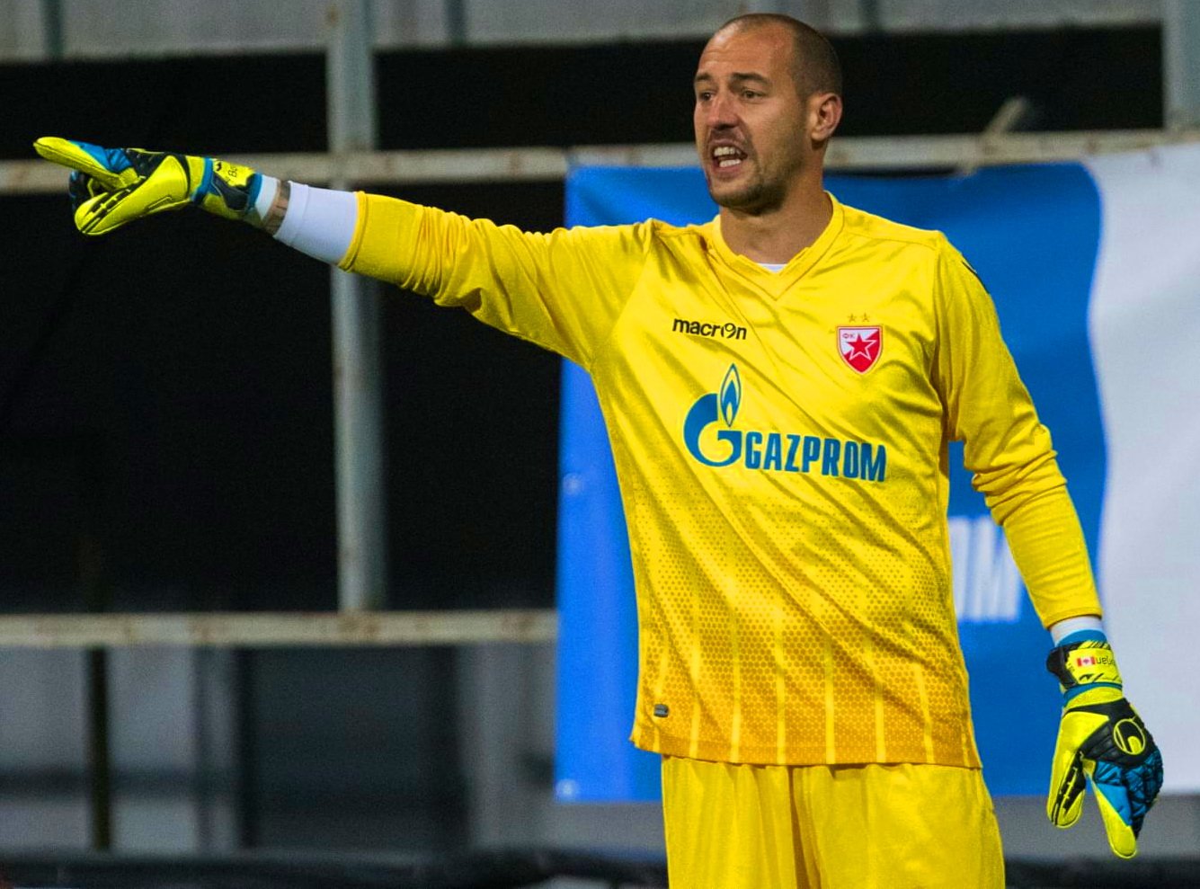 07.02.2018. Турция, Анталия, стадион «Мардан». Вторые зимние «Газпром» — тренировочные сборы: товарищеский матч «Зенит» — «Црвена Звезда».